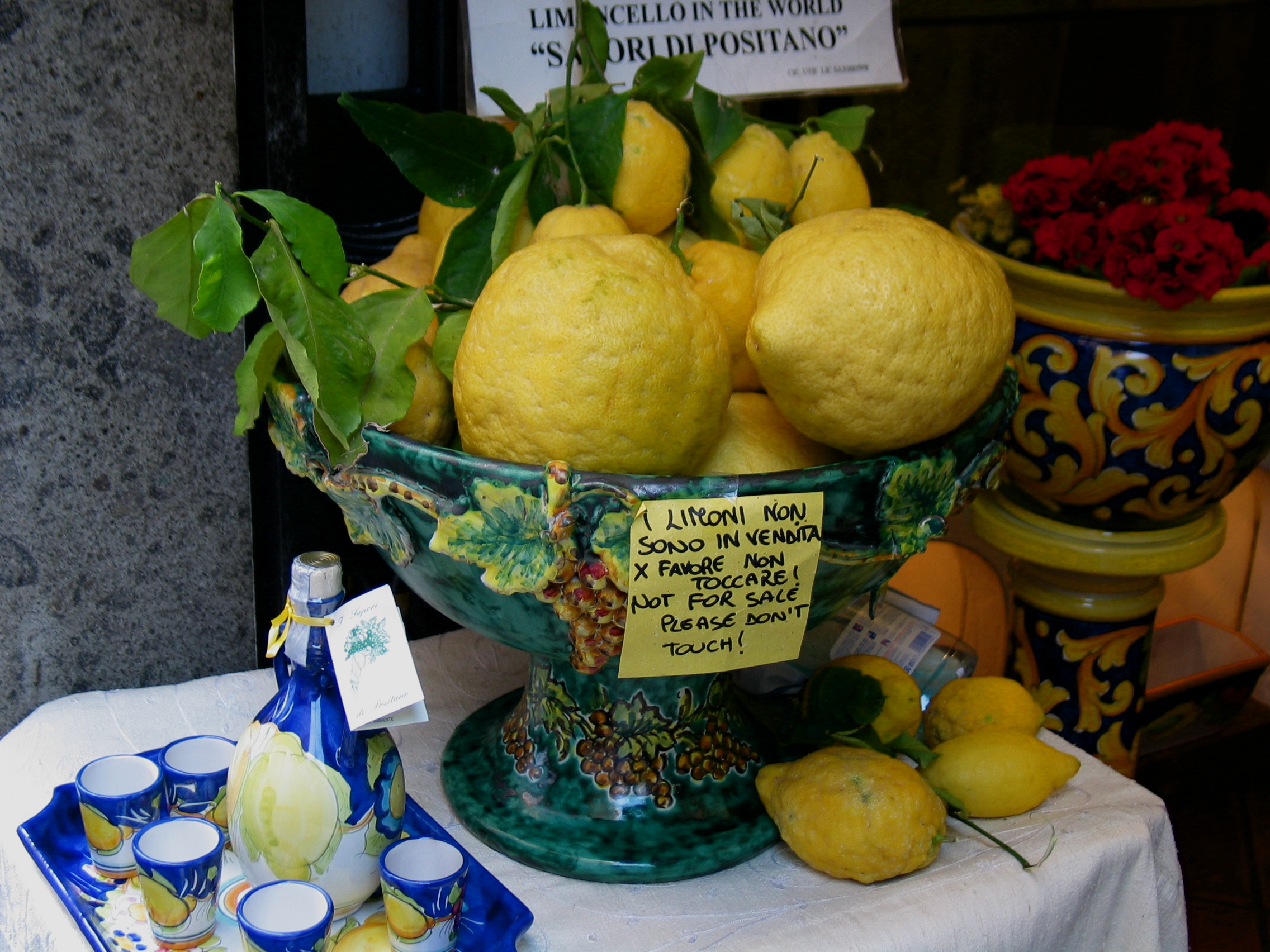 Lemons were as big as footballs. And twice we got a shot of Limoncello, a lemon based after dinner drink--included in some meals or as a gift of the house. A bit like cough syrup with a kick.